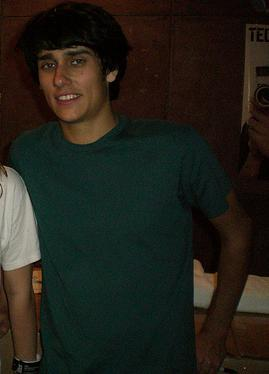 Teddy Geiger, 2008